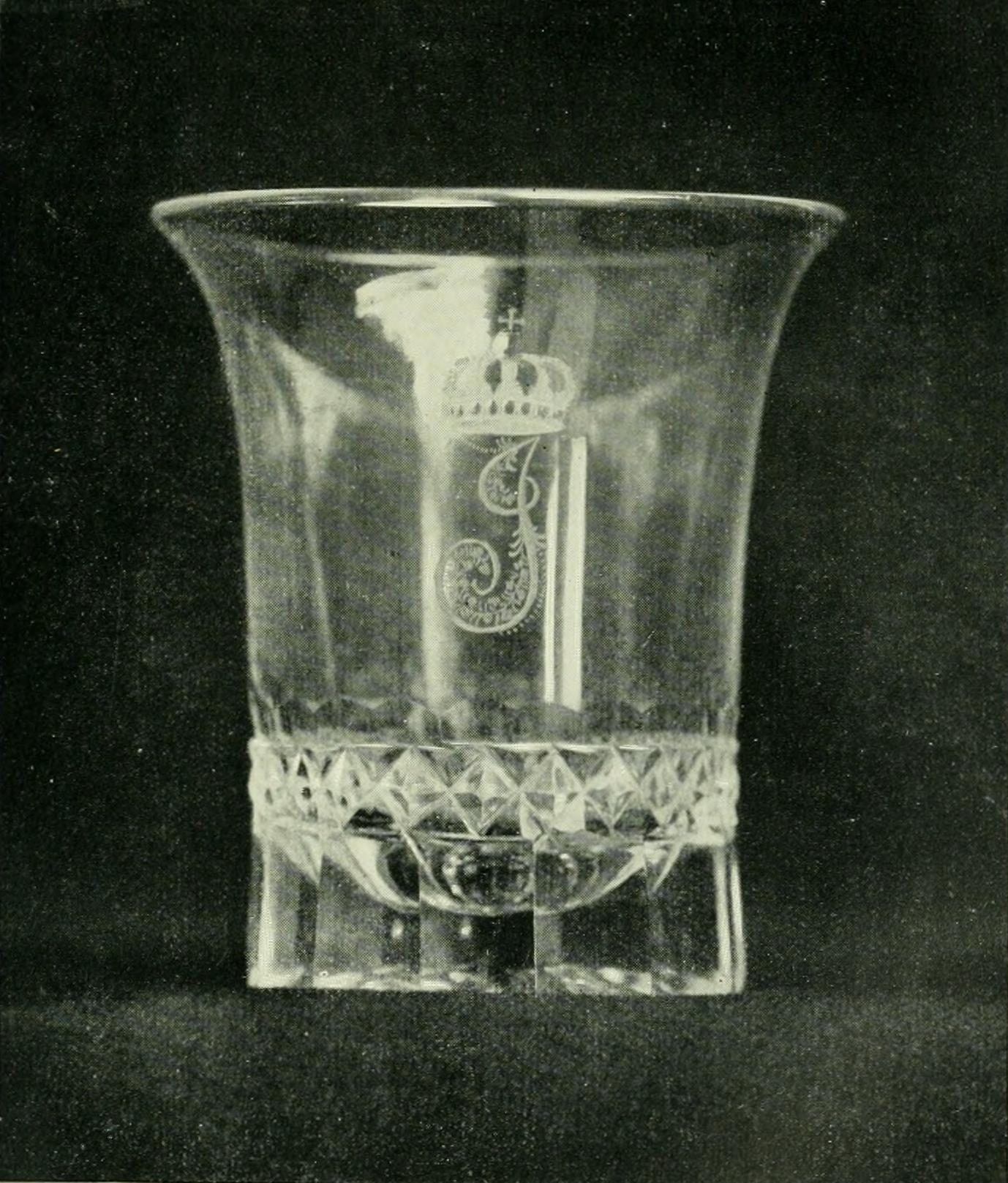 Napoleon desired to present Captain Maitland with a box containing his portrait set in diamonds. On Maitland's declining, in the circumstances, to accept any present of value, the Emperor begged him to keep as a souvenir a tumbler from his travelling case, bearing the crown and cipher of the Empress Josephine. (Description from page xiii of source).